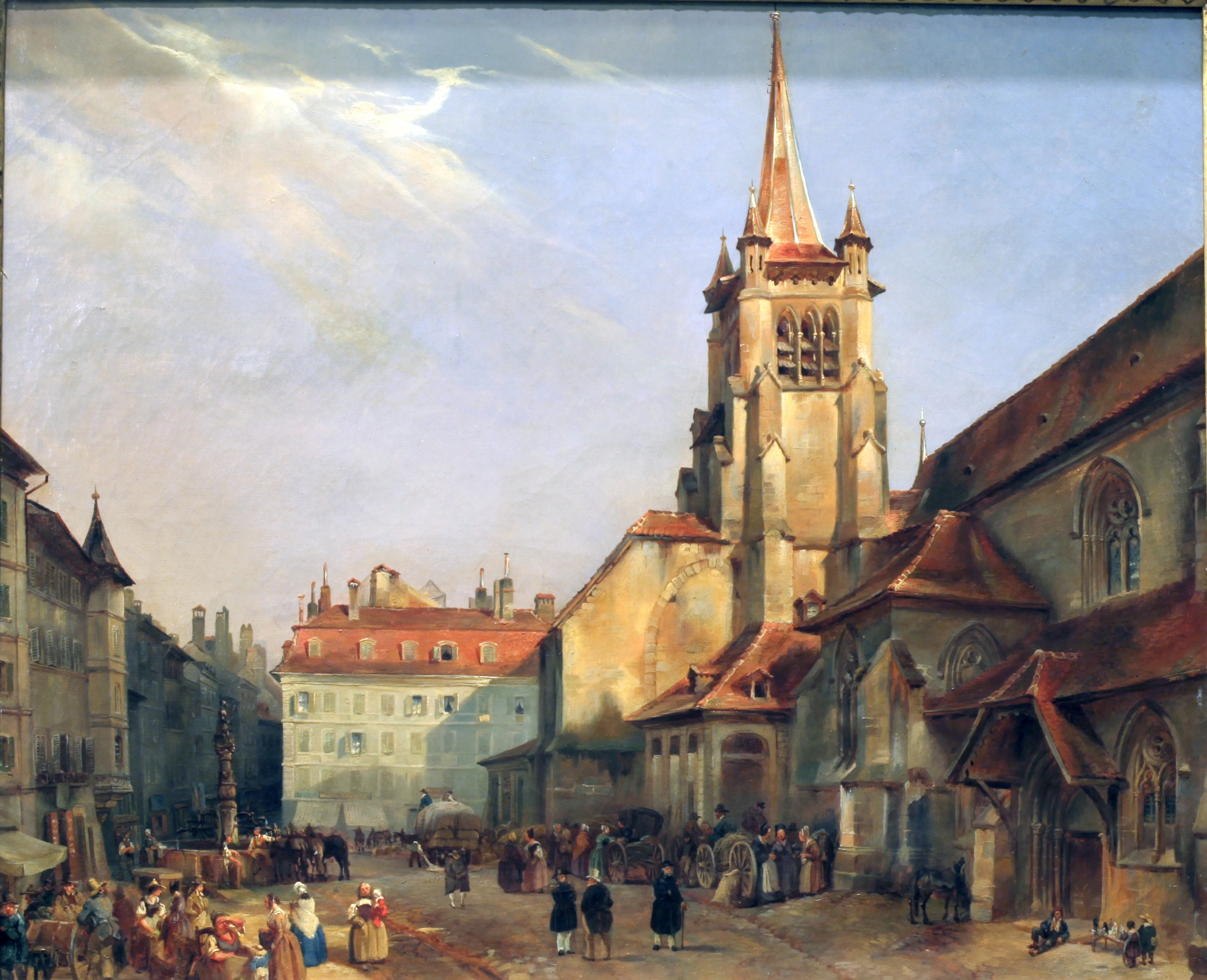 Saint-François square, ca. 1840, oil on canvas, anonymous. On display at the Musée historique de Lausanne.